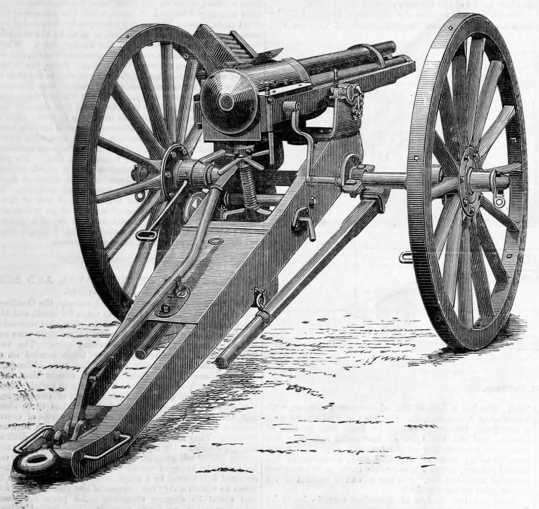 The Hotchkiss gun was one of the exhibits in London, described in the periodical The Engineer May 5, 1882 on page 317-318, accompanied byu this drawing.